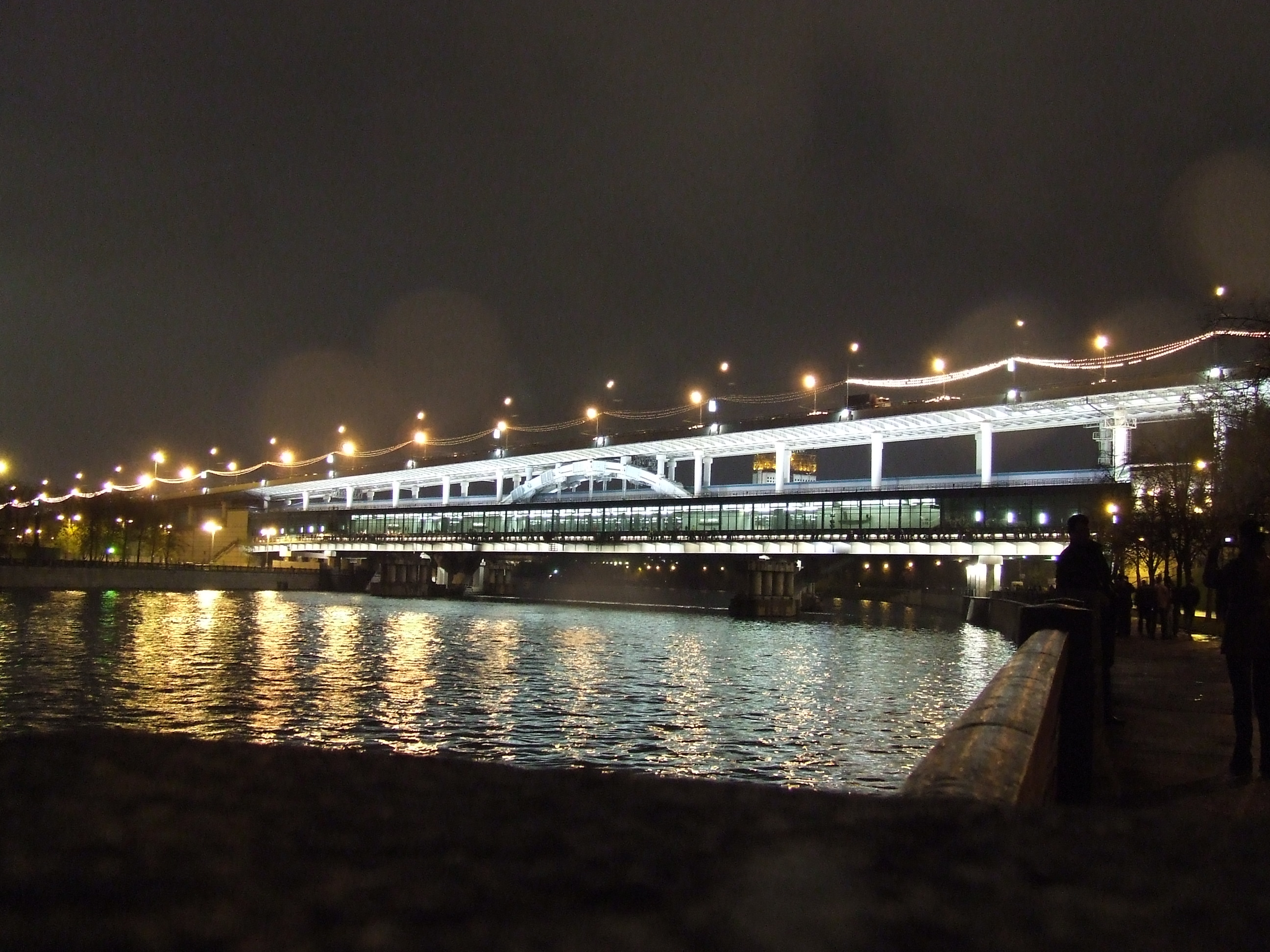 Moscow's Vorobyovy Gory metro station of Sokolnicheskaya Line (at night)